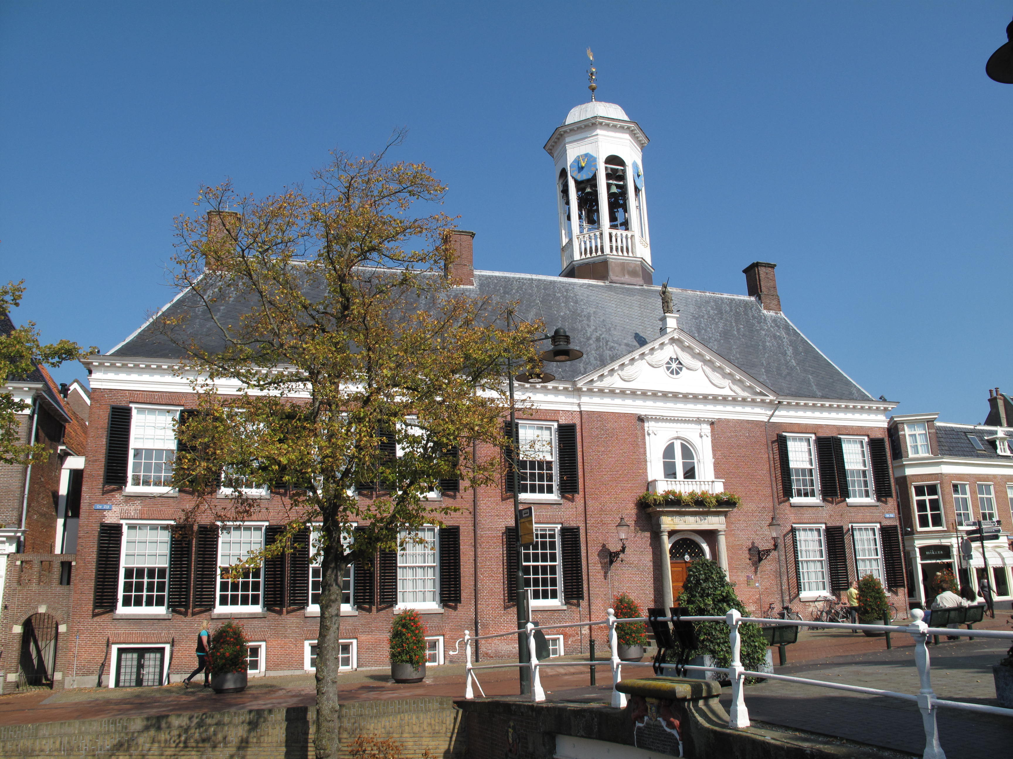 Dokkum, town hall